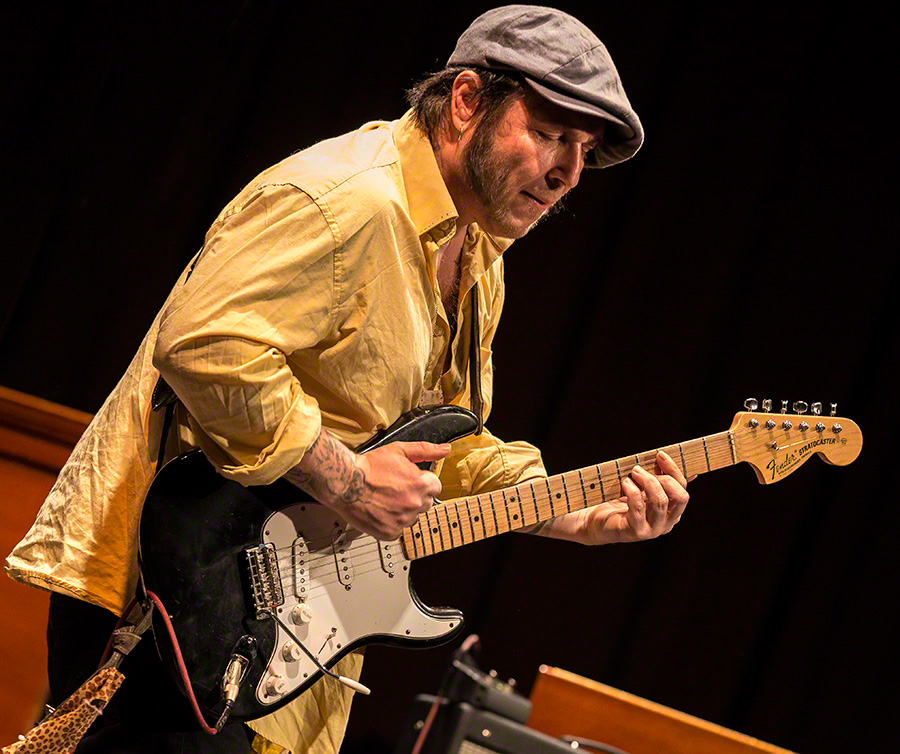 Vidar Busk with The Organ Club at Cosmopolite Scene in Oslo on 14.04.2016. Lineup:Vidar Busk (guitar)Brynjulf Blix (organ)Erland Helbø (guitar)Sidiki Camara (percussion)Audun Erlien (bass)Charles Mena (drums)